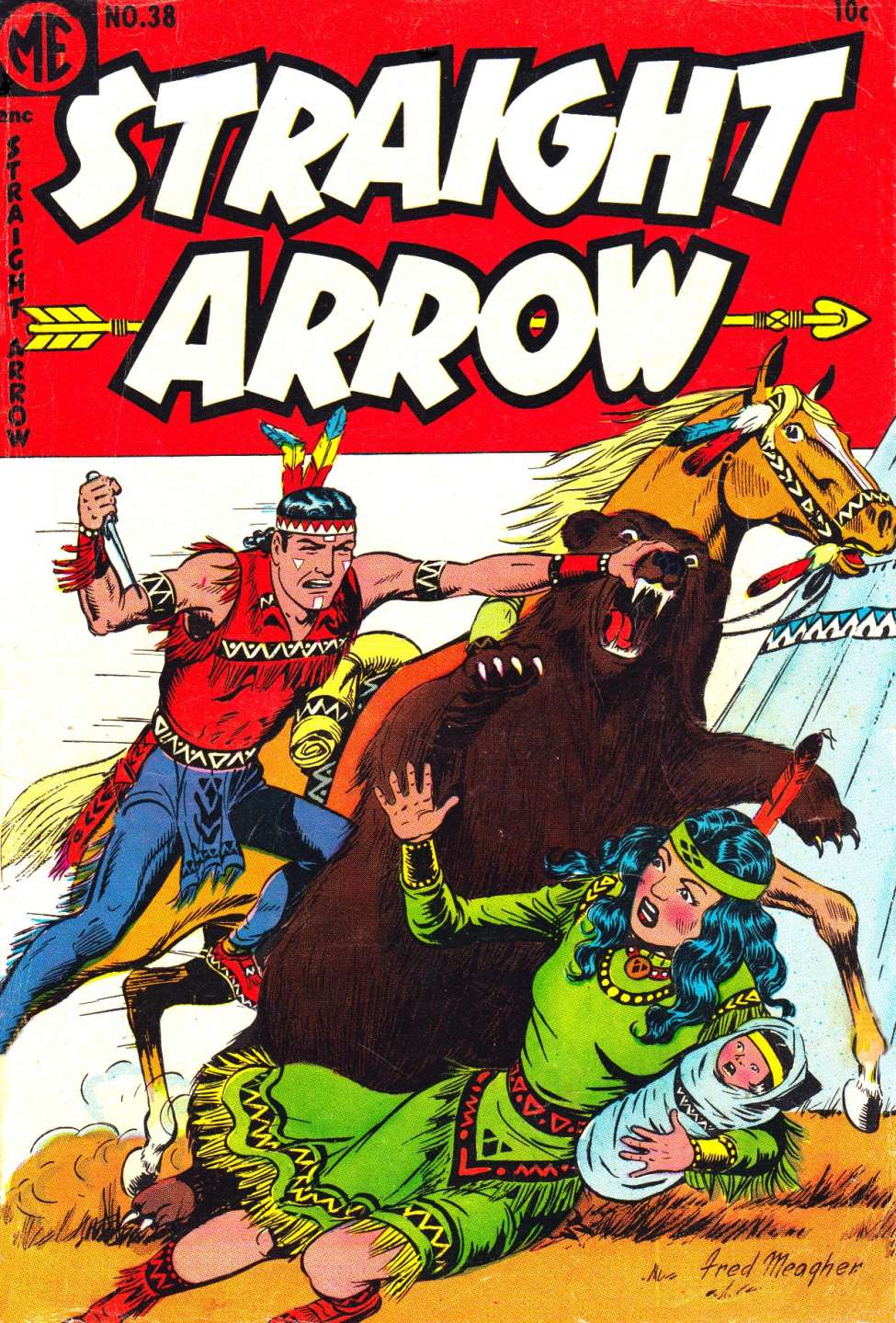 Comic book cover of Straight Arrow #38 September-October 1954